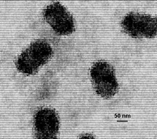 EM of Molluscum contagiosum virus (vaccina virus), please keep authors name on unmodified scan.